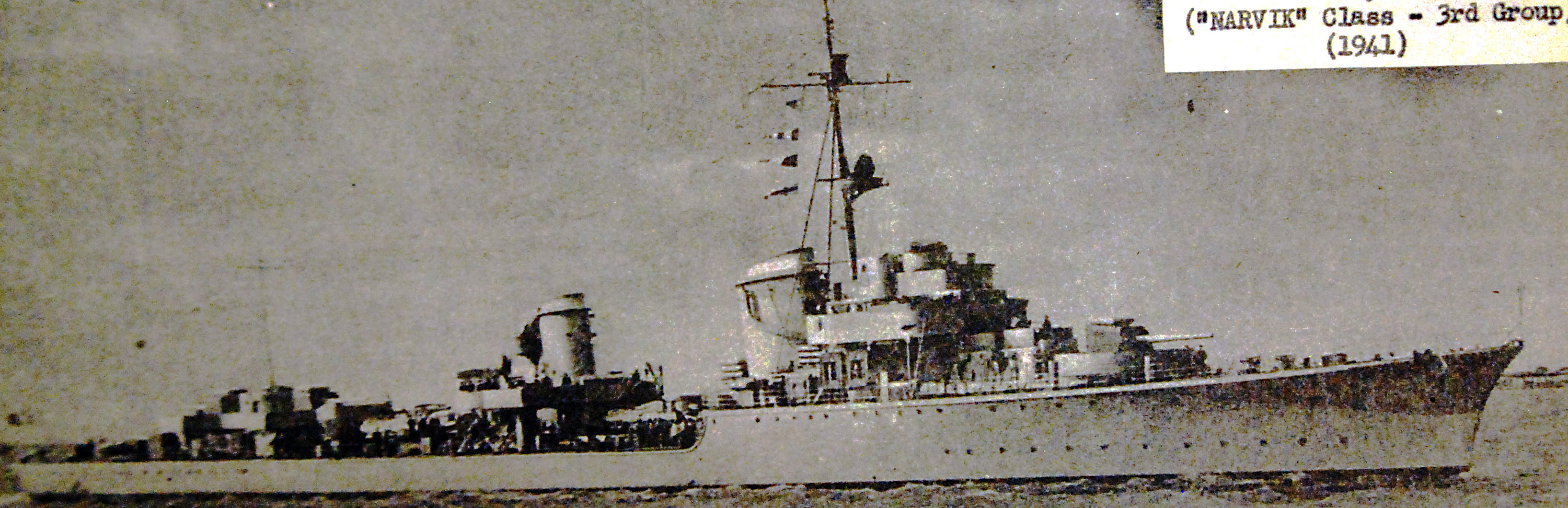 Lot-2275-44: German Warships, WWII. German Narvik class destroyer, 3rd Group, starboard view, 1941. Halftone image from Division of Naval Intelligence, Identification and Characteristics Section, June 1943. Courtesy of the Library of Congress. (2016/05/06).